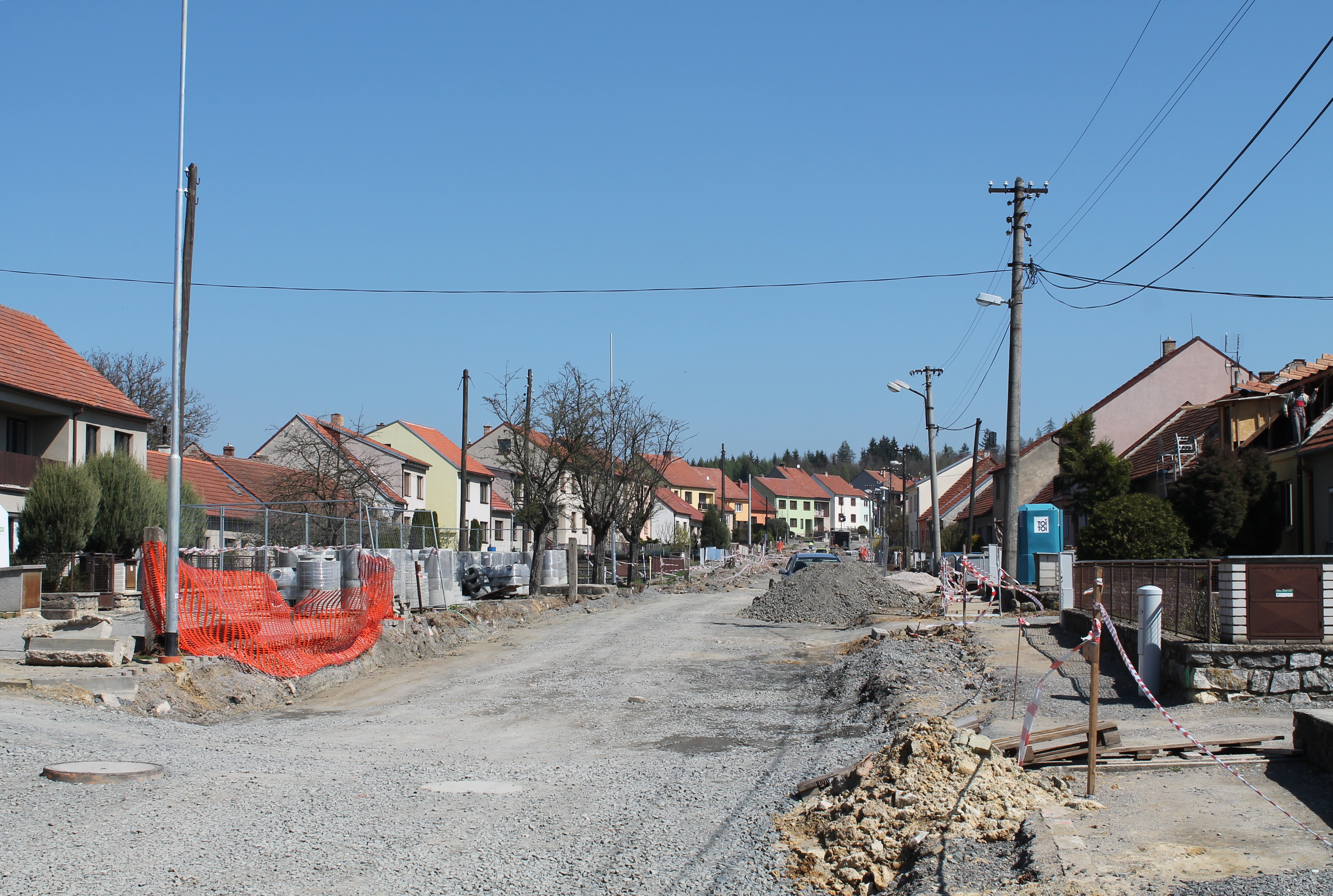 Proseč, Březina, Brno-Country District, Czech Republic